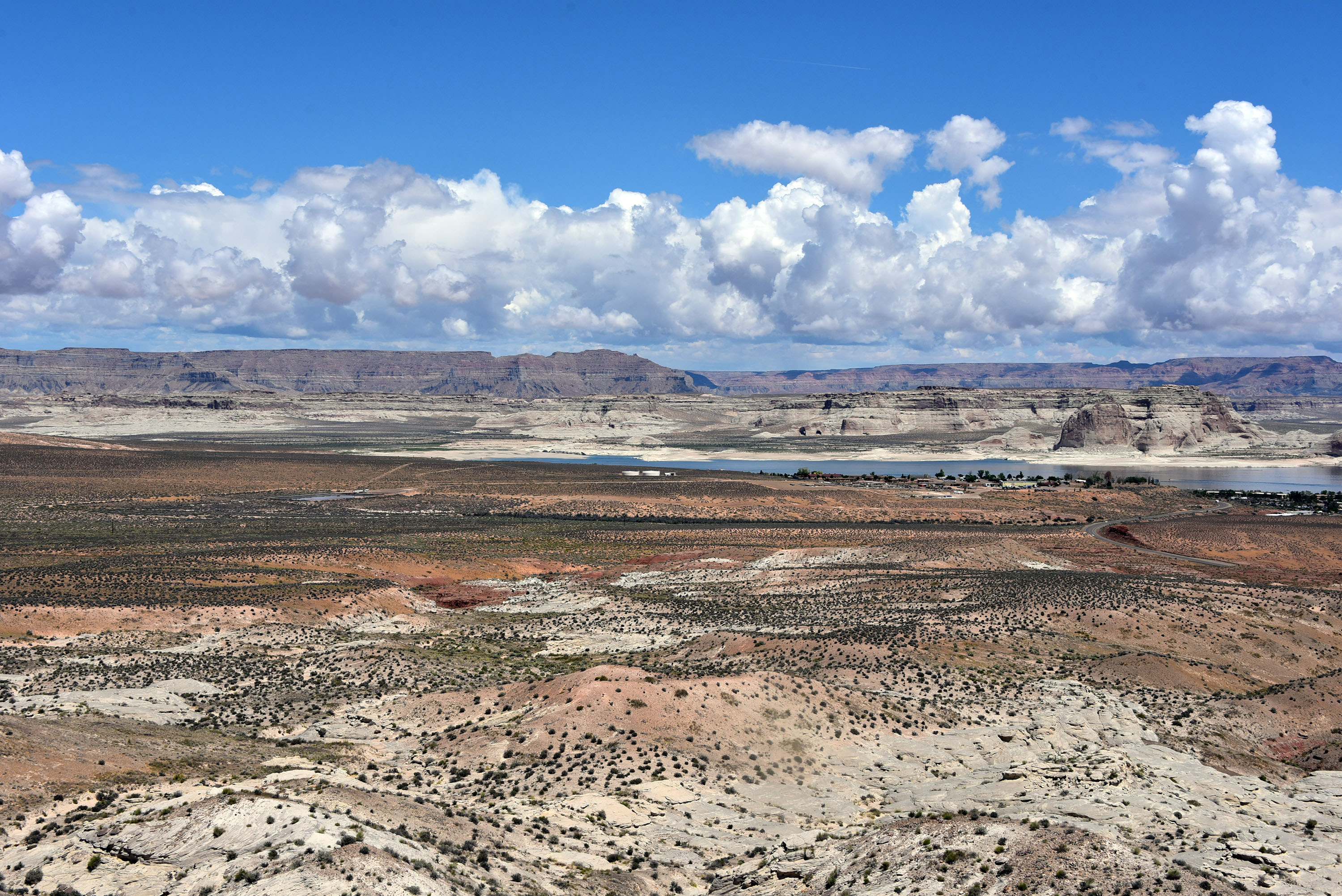 Wahweap Formation with Lake Powell, Southern Utah.